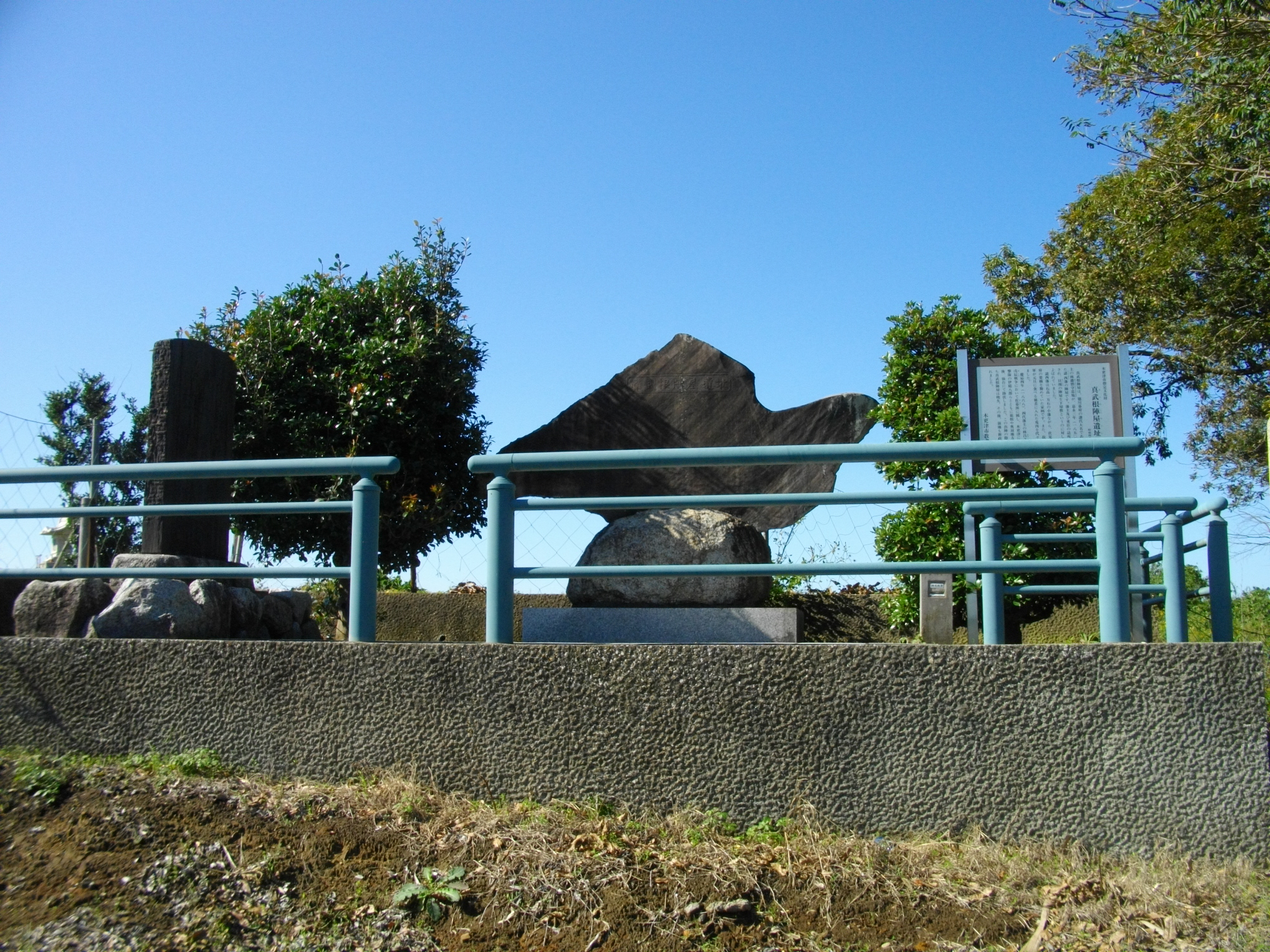 Ruins of Mafune Jin'ya (Jozai Han Office)